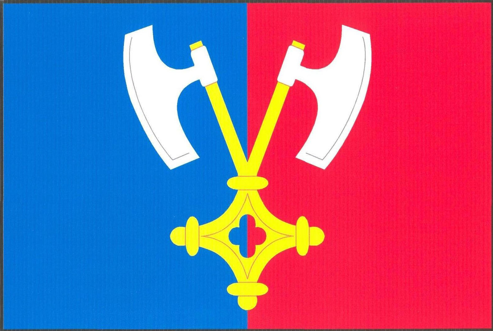 Municipal flag of Říčany village, Brno-Country District, Czech Republic.